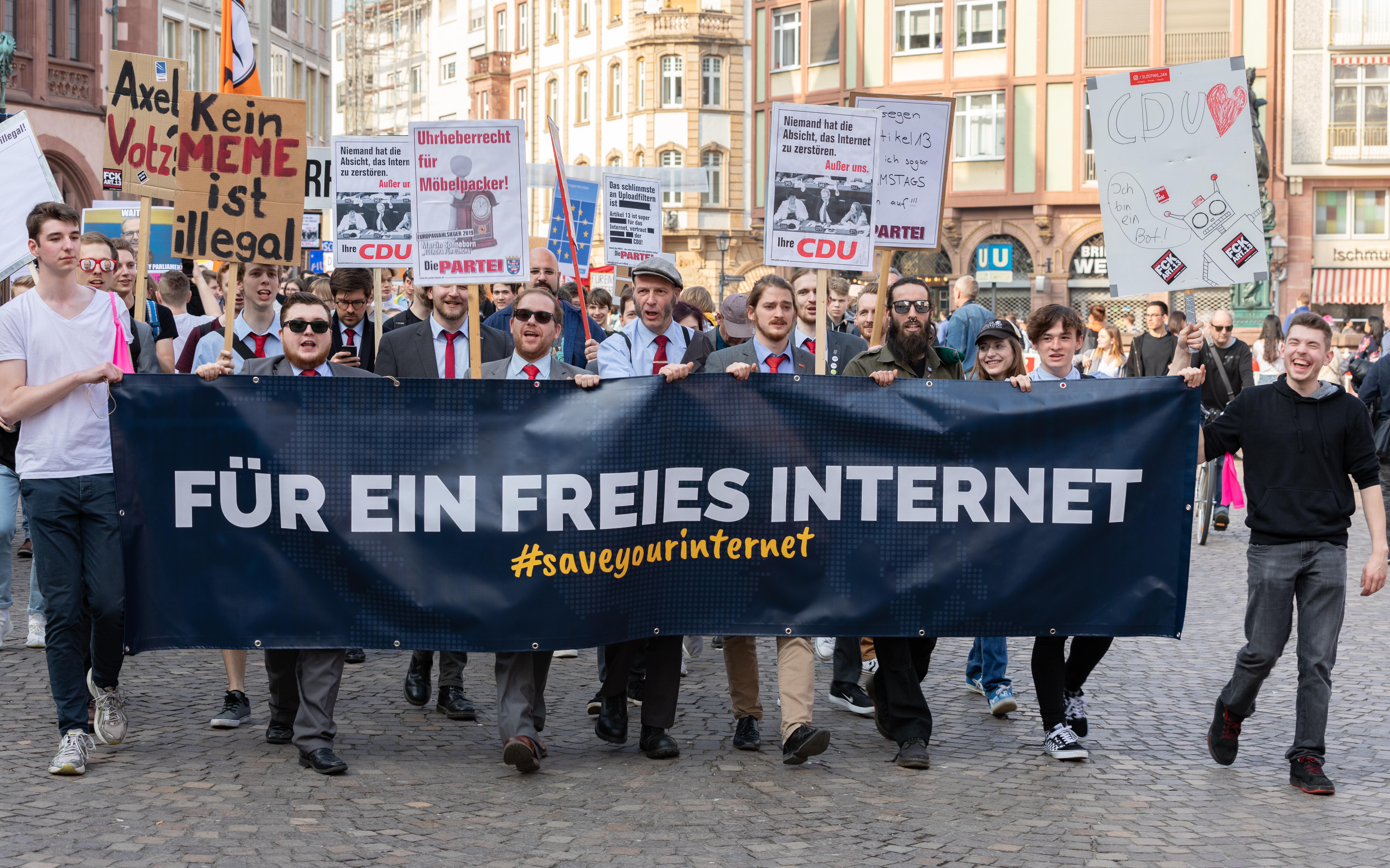 The #SaveYourInternet #FrankfurtGegen13 demonstration, March 23rd 2019